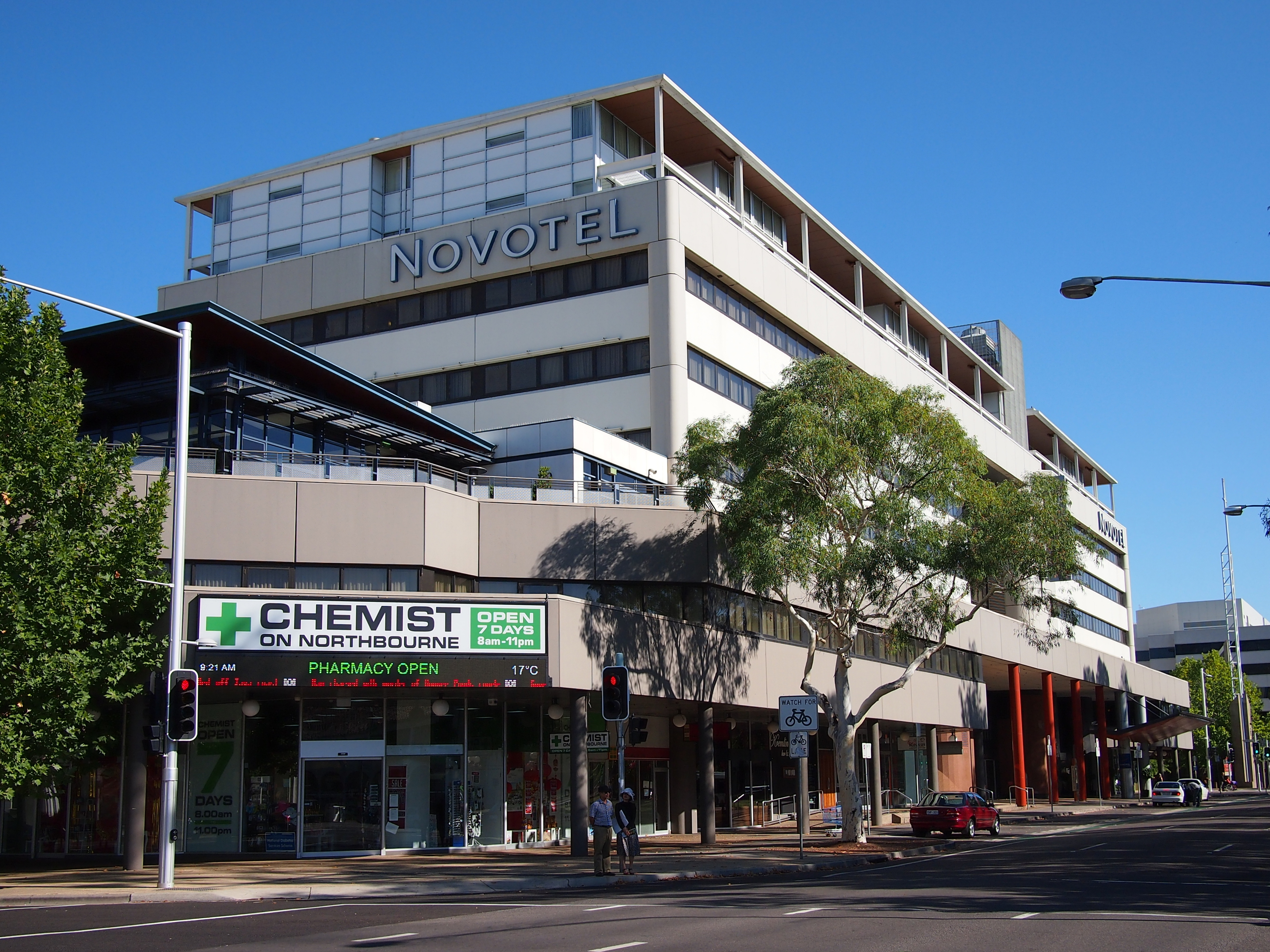 The Jolimont Centre and Novotel Hotel